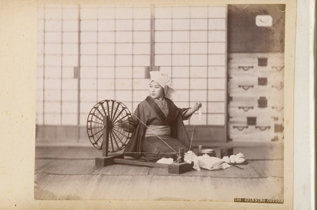 A woman spinning cotton